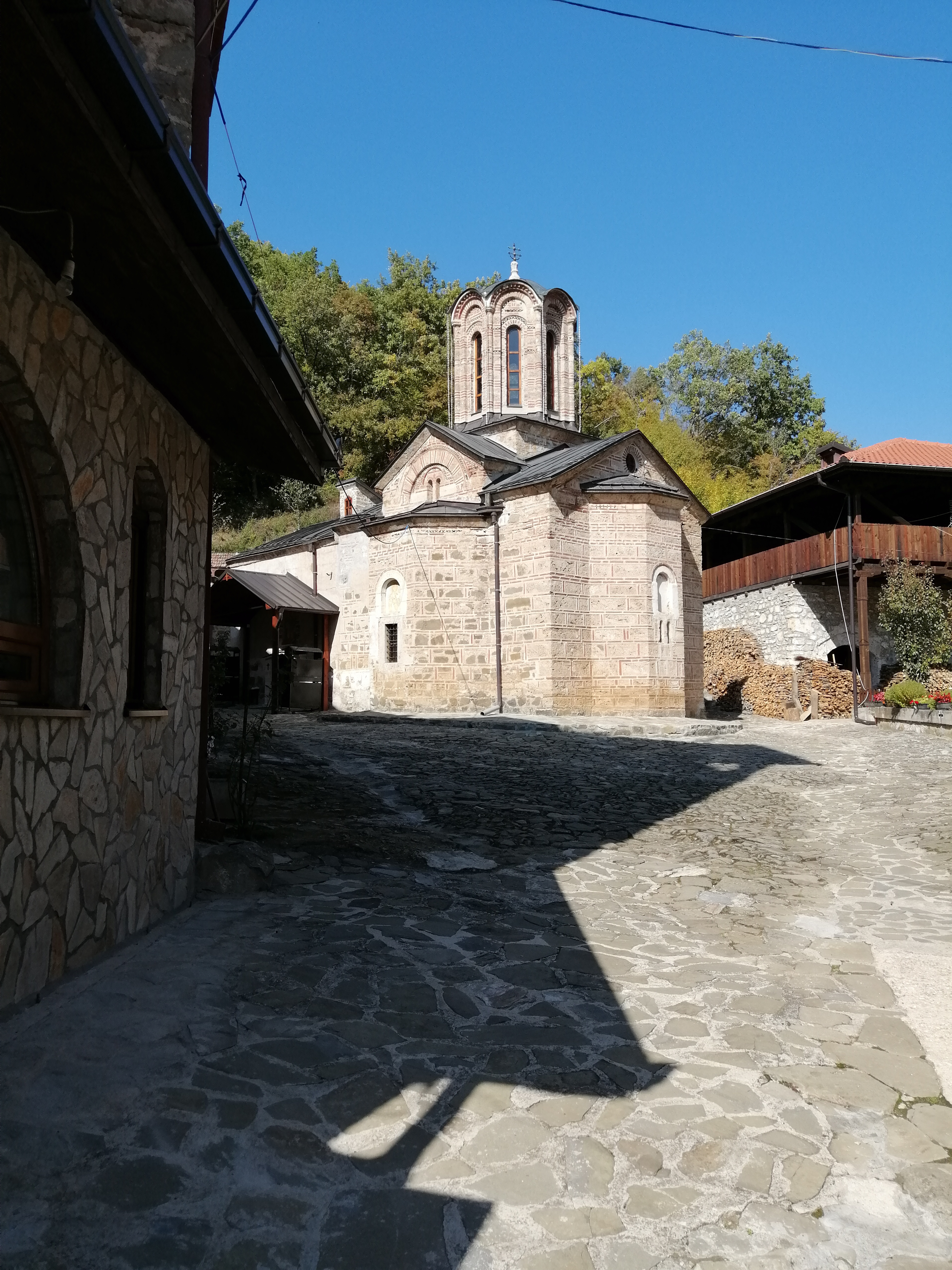 View of Sts. Michael and Gabriel Church in the village Kučevište